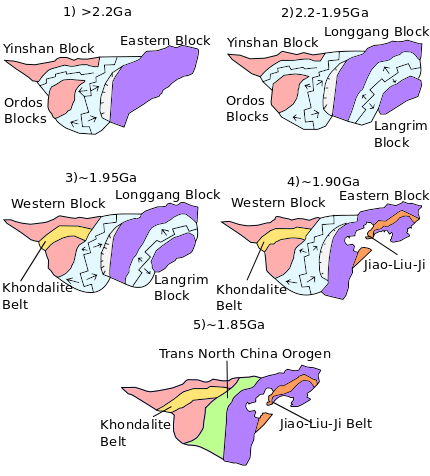 It shows how the craton is amalgamated in the 1.85Ga model